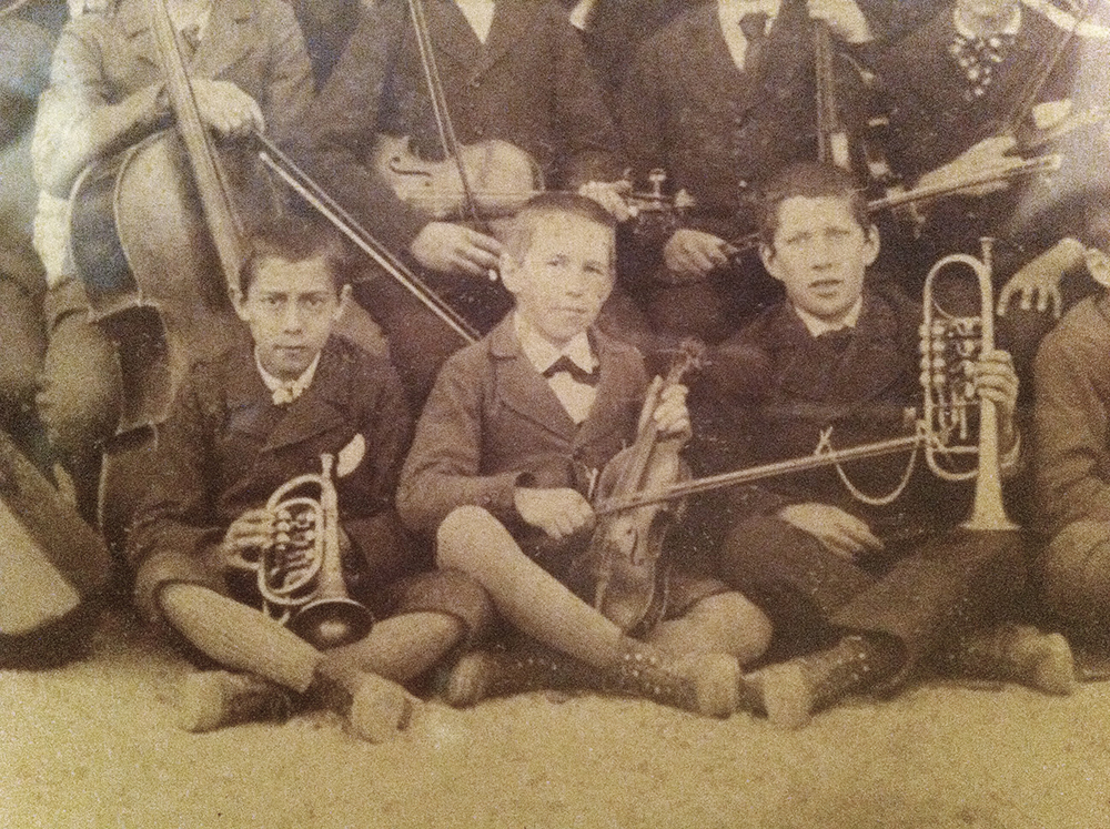 Louis Soutter (centre) member of the orchestra «La Récréation» in Morges. Commemorative photograph dating from 1883. Soutter is twelve.